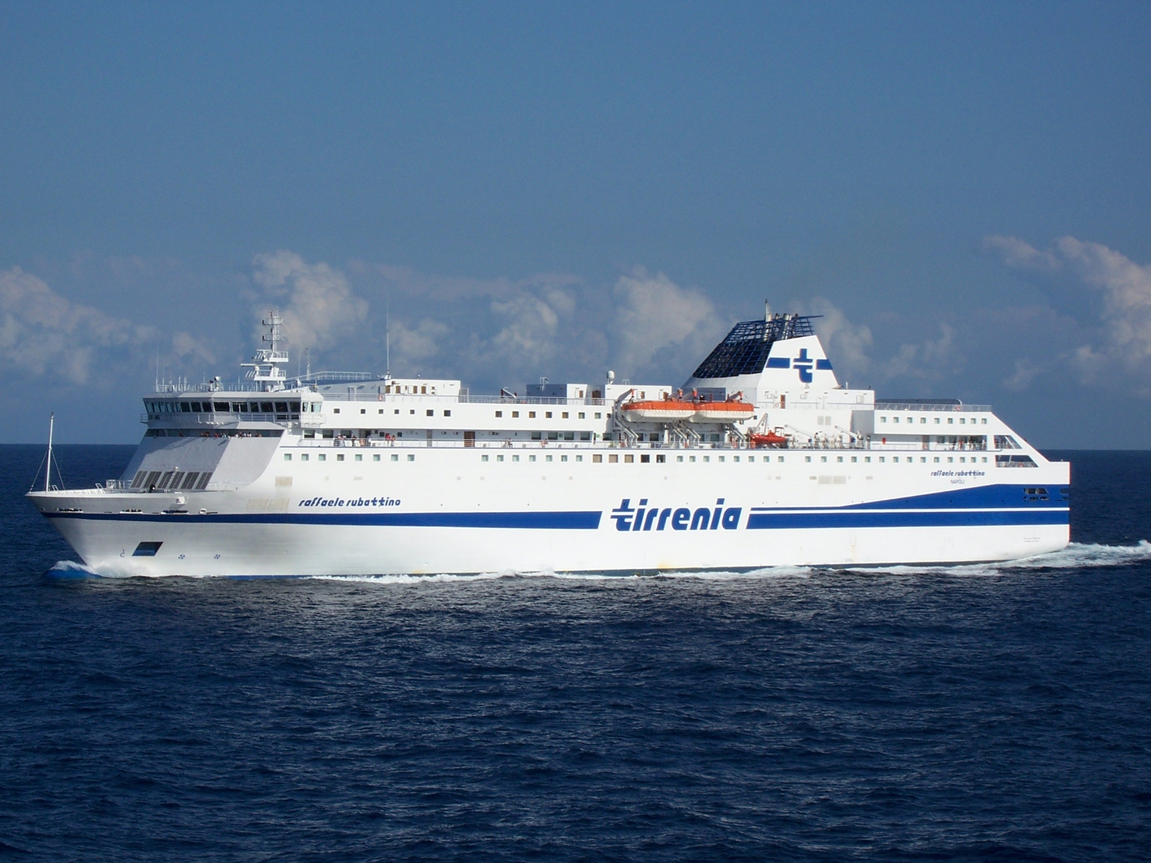 M/S Raffaele Rubattino Cruiseferry of the Tirrenia di Navigazione